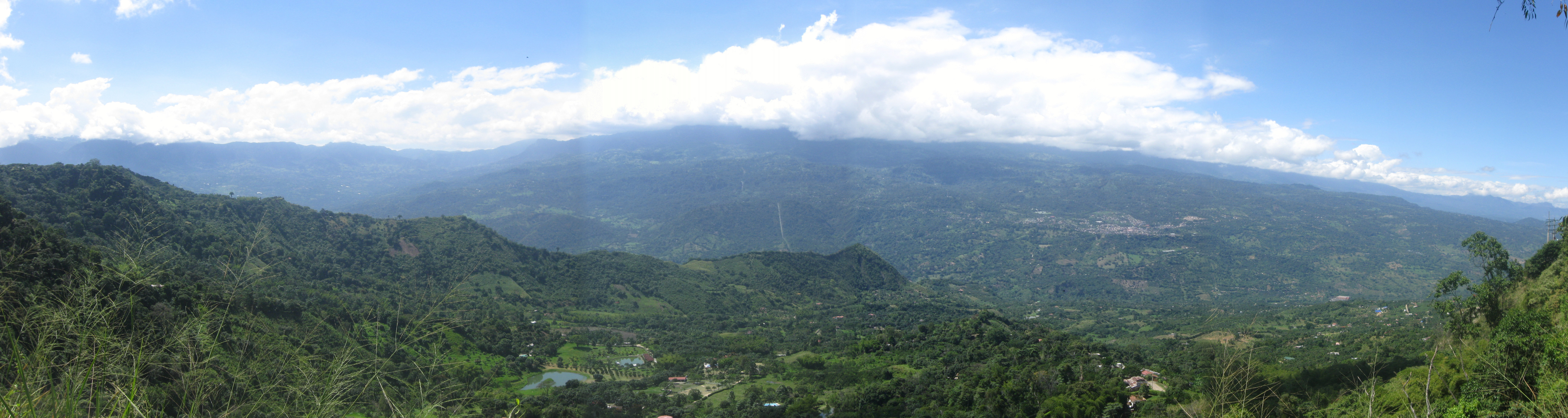 Panoramic view from a viewpoint of La Mesa, very beautiful images can be viewed from this county.